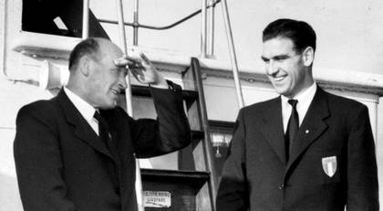 Sture Mårtenson (right) with the legendary MFF-president Eric Persson 1949.